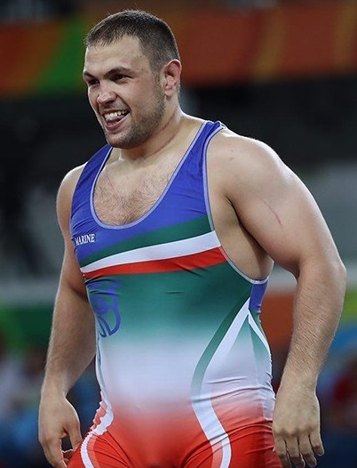 Depicted person: Komeil Ghasemi – Iranian wrestler